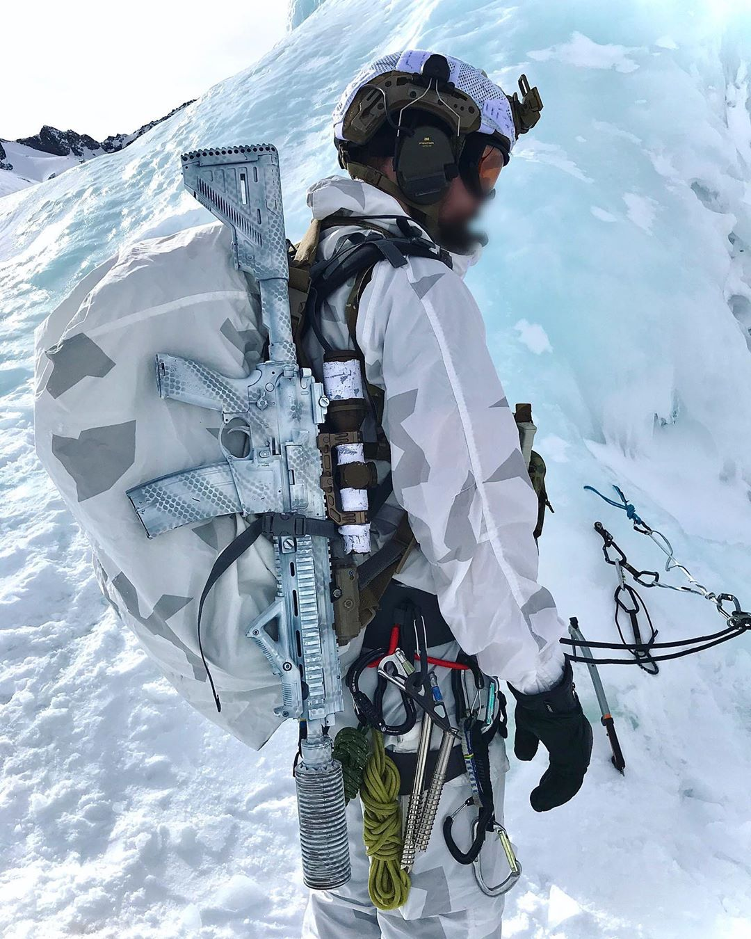 Korps Commandotroepen (KCT) Heeresbergführer course in Austria